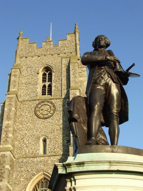 St Peters and Thomas Gainsborough St Peters church and the statue of Thomas Gainsborough Sudbury Suffolk.